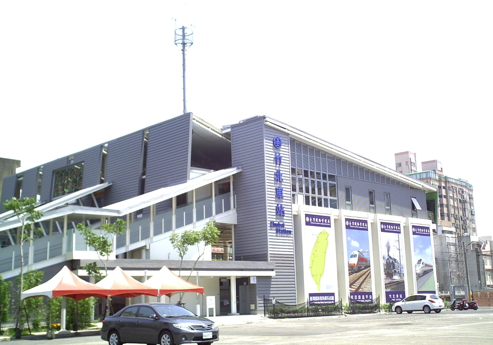 TRA Zhubei Station, new building